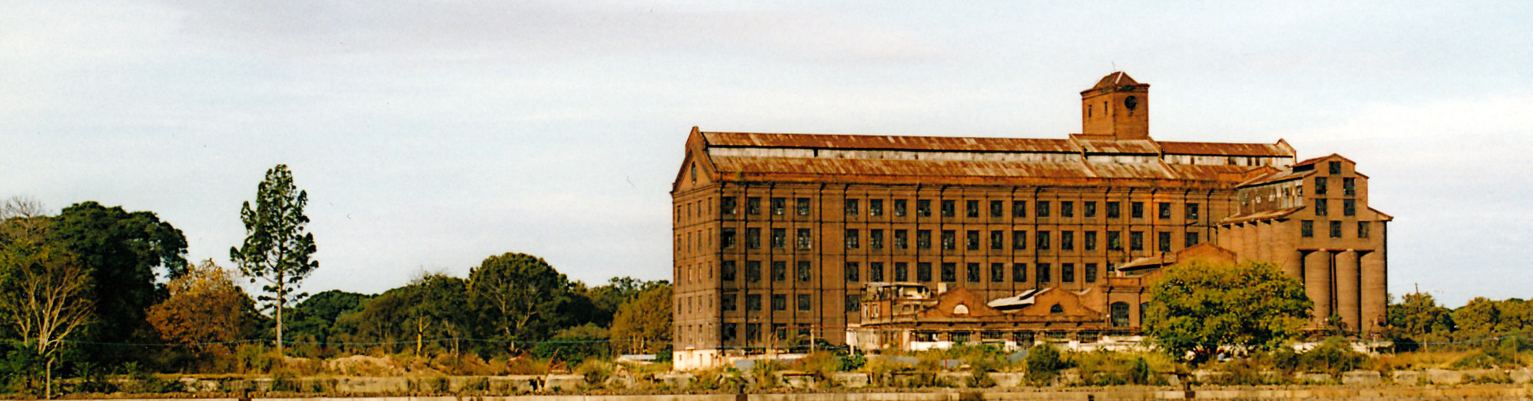 A 1999 photo of the abandoned grain storage, elevator, and mill complex "El Porteño" in Puerto Madero, Buenos Aires. It was renovated and converted into a hotel, apartment, and office complex and reopened in 2004.